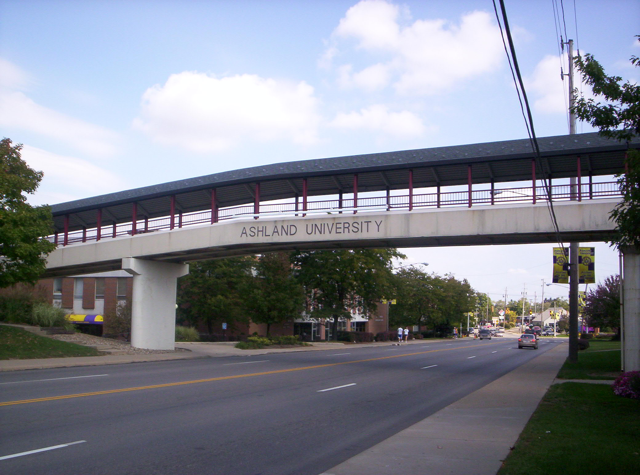 A view of the Ashland University overpass on Claremont Avenue in Ashland, Ohio.